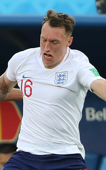 Phil Jones playing for England against Belgium at the 2018 FIFA World Cup